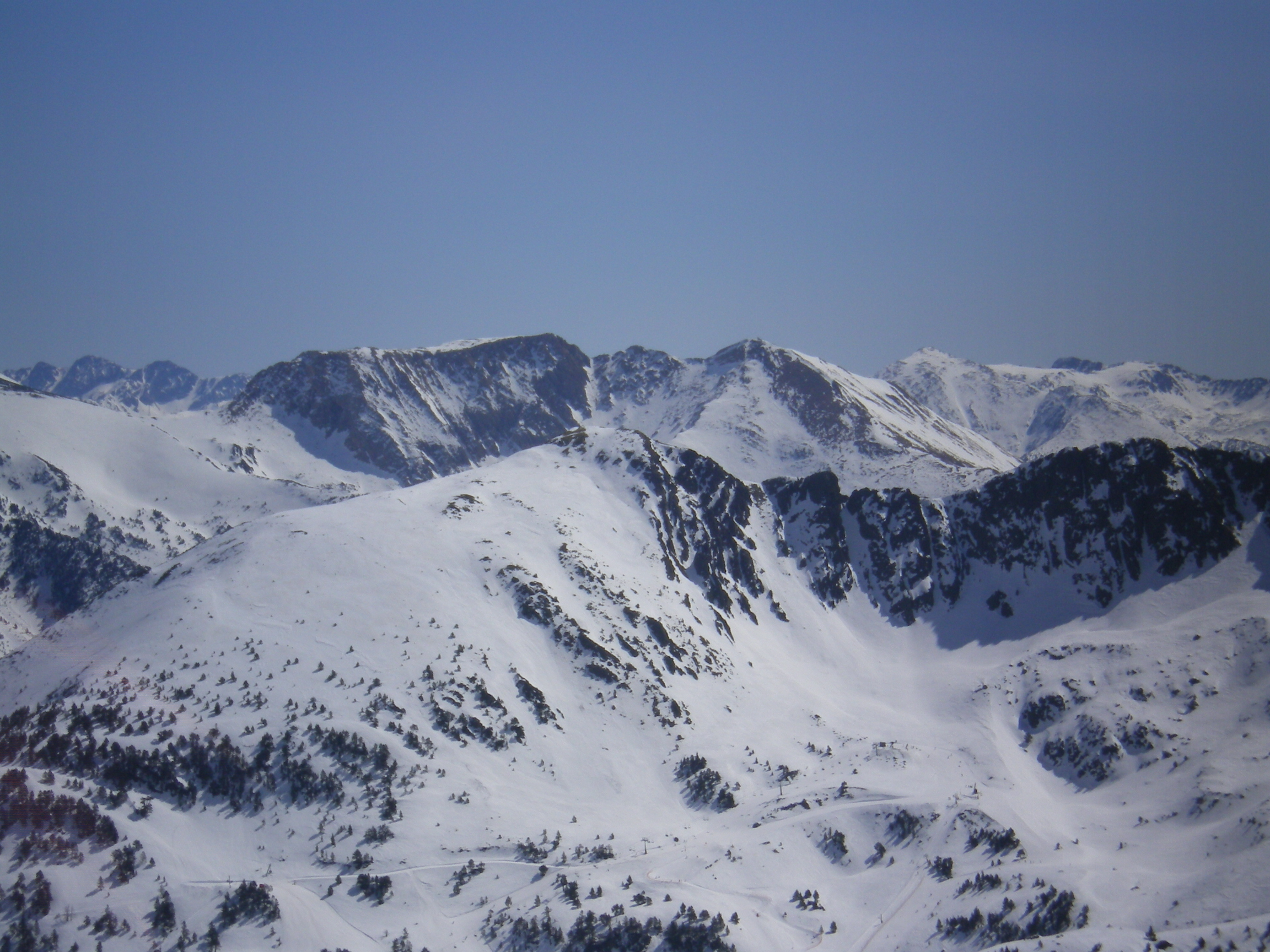 Casamanya from Ordino-Arcalis Sky Station